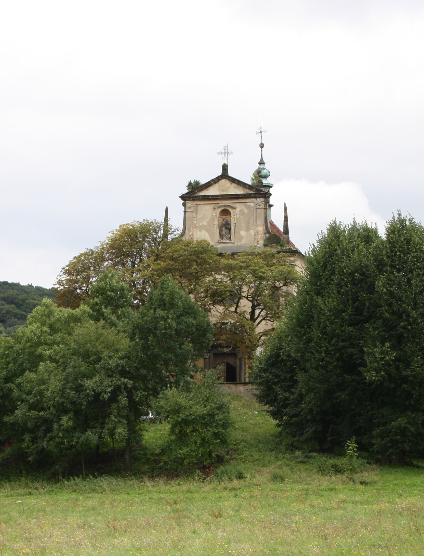 Church of St. Anthony of Padua in Milešov village (Velemín municipality) as seen from the road, Litoměřice District, Czech Republic.